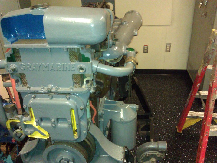 Aboard the TSGB in Vallejo, Califfornia